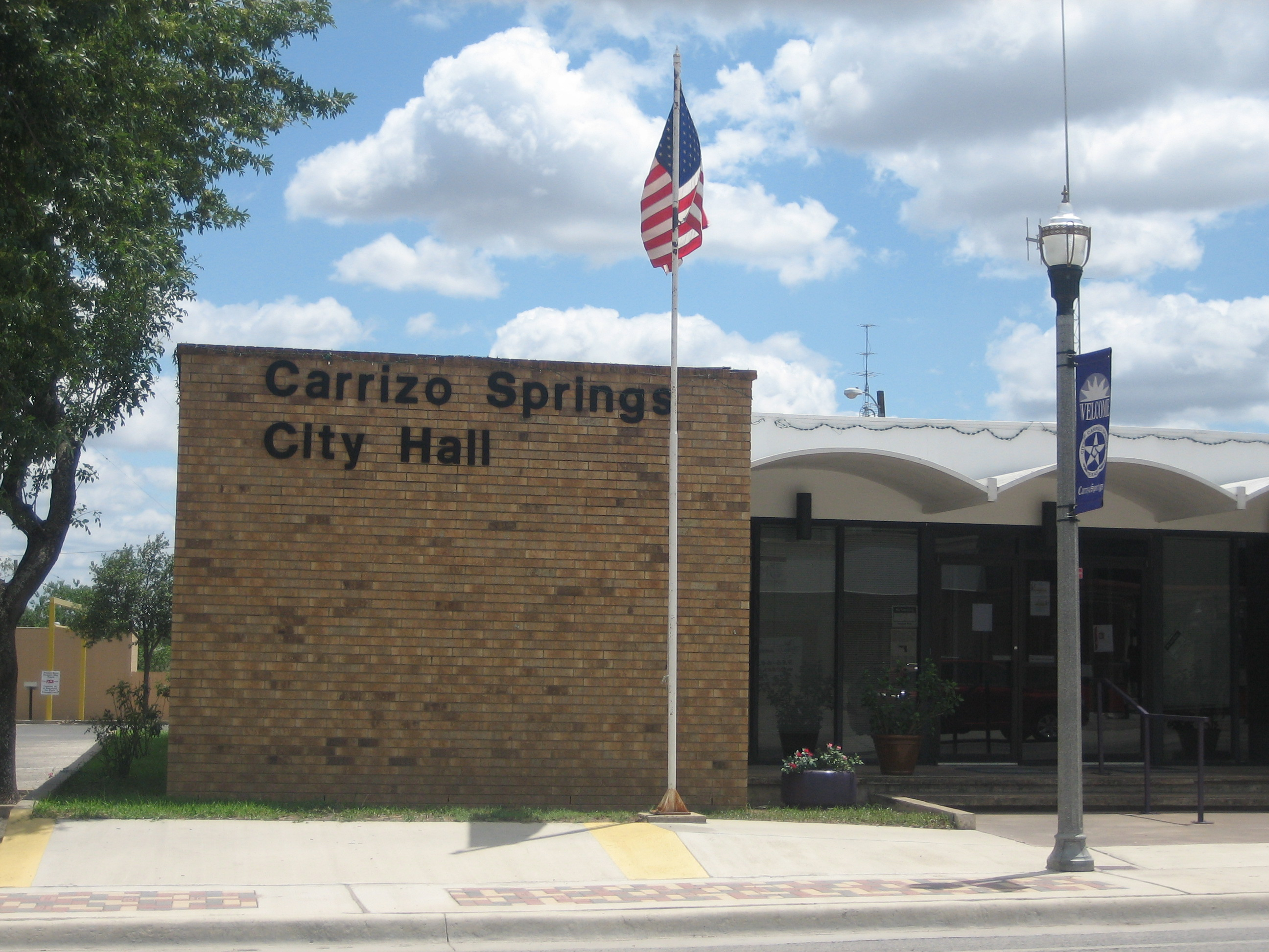 Carrizo Springs, Texas city hall